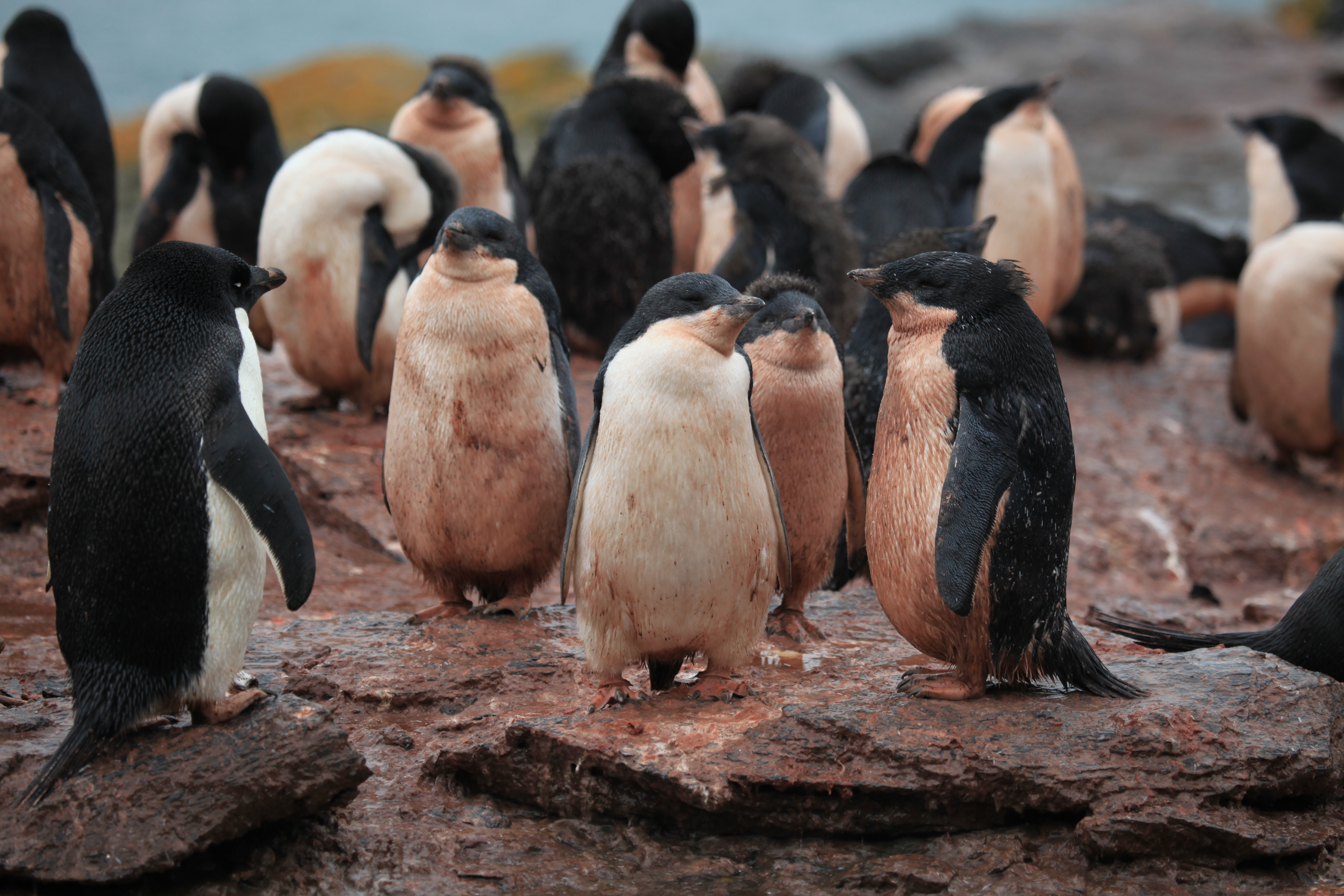 On Coronation Island in the South Orkneys, the Adélie Penguin chicks look decidedly pink--the colour of these penguins' poop.